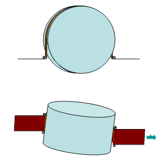 Helical scan omega threading with 180° coverage